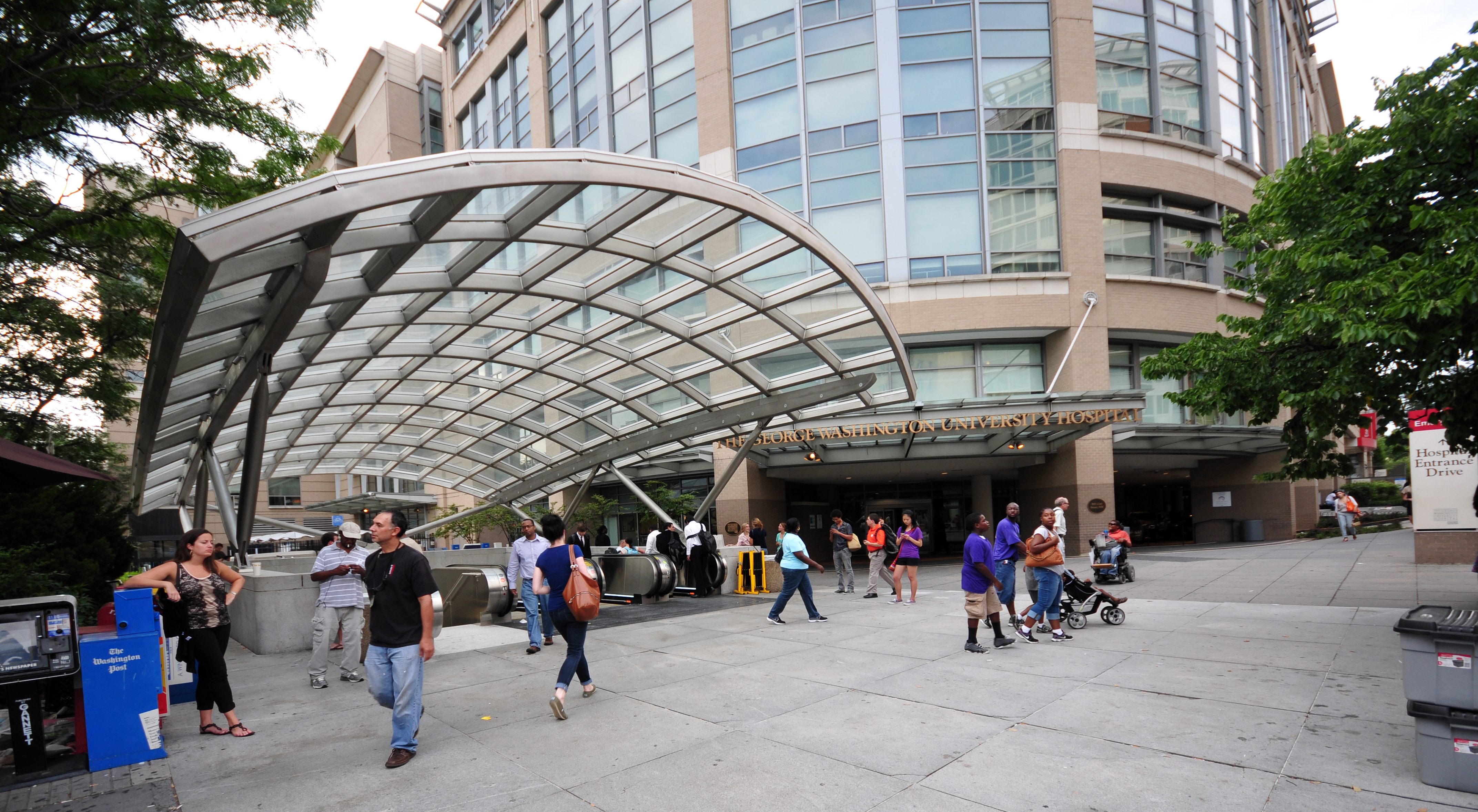 Foggy Bottom Metro Station, Washington D. C. The making of this work was supported by Wikimedia Austria. For other files made with the support of Wikimedia Austria, please see the category Supported by Wikimedia Österreich.